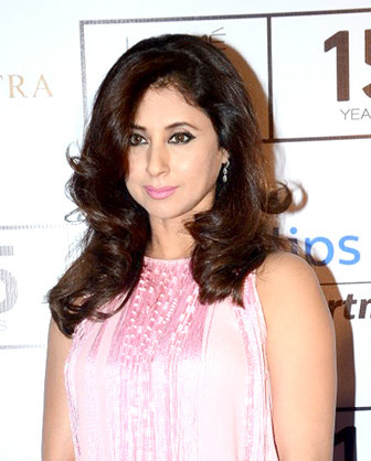 Urmila Matondkar at designer Manish Malhotra's "The Gentlemen’s Club" Collection show